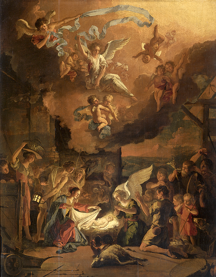 Pendant of File:The Annunciation to the Shepherds 1663 Abraham Hondius.jpg